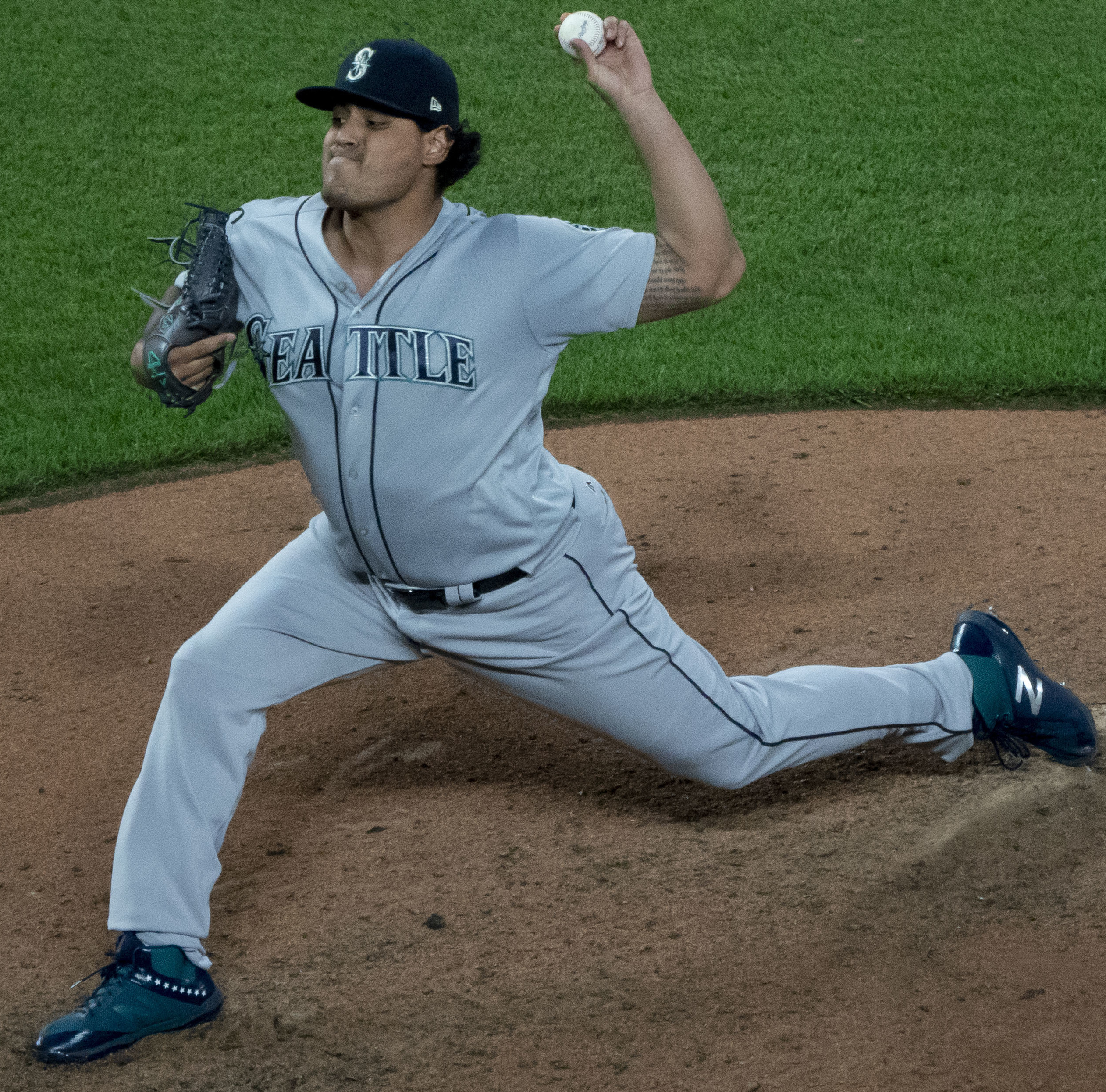 Mariners at Orioles 6/25/18